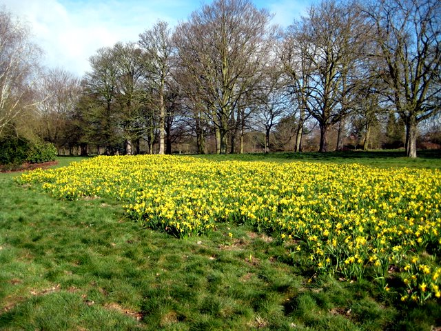 Daffodils at the eastern end of Cassiobury Park, Watford, Hertfordshire, UK